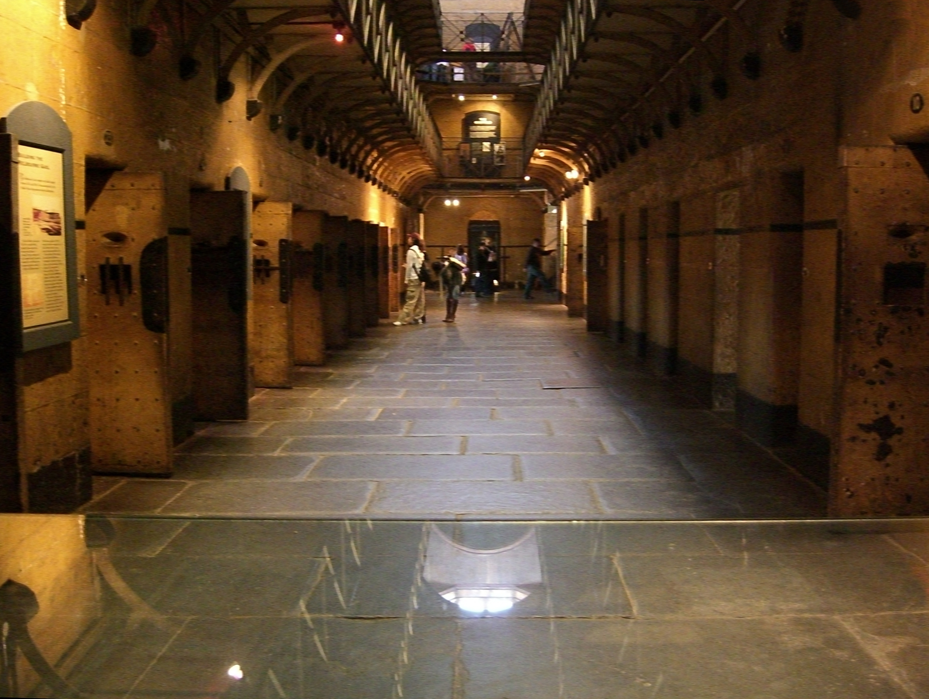 Old Melbourne Gaol, former prison, museum